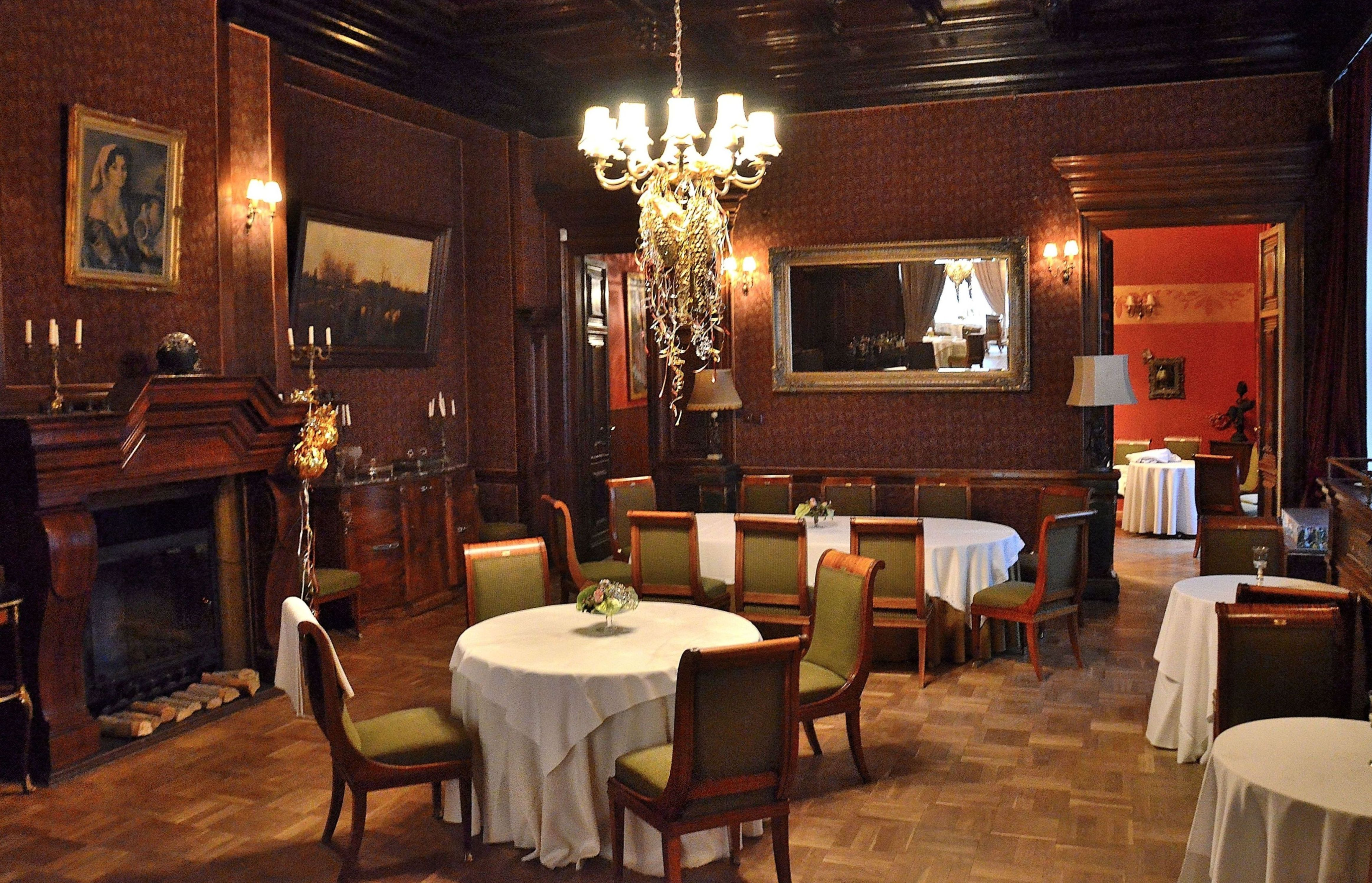 Pod Gigantami Restaurant in Warsaw